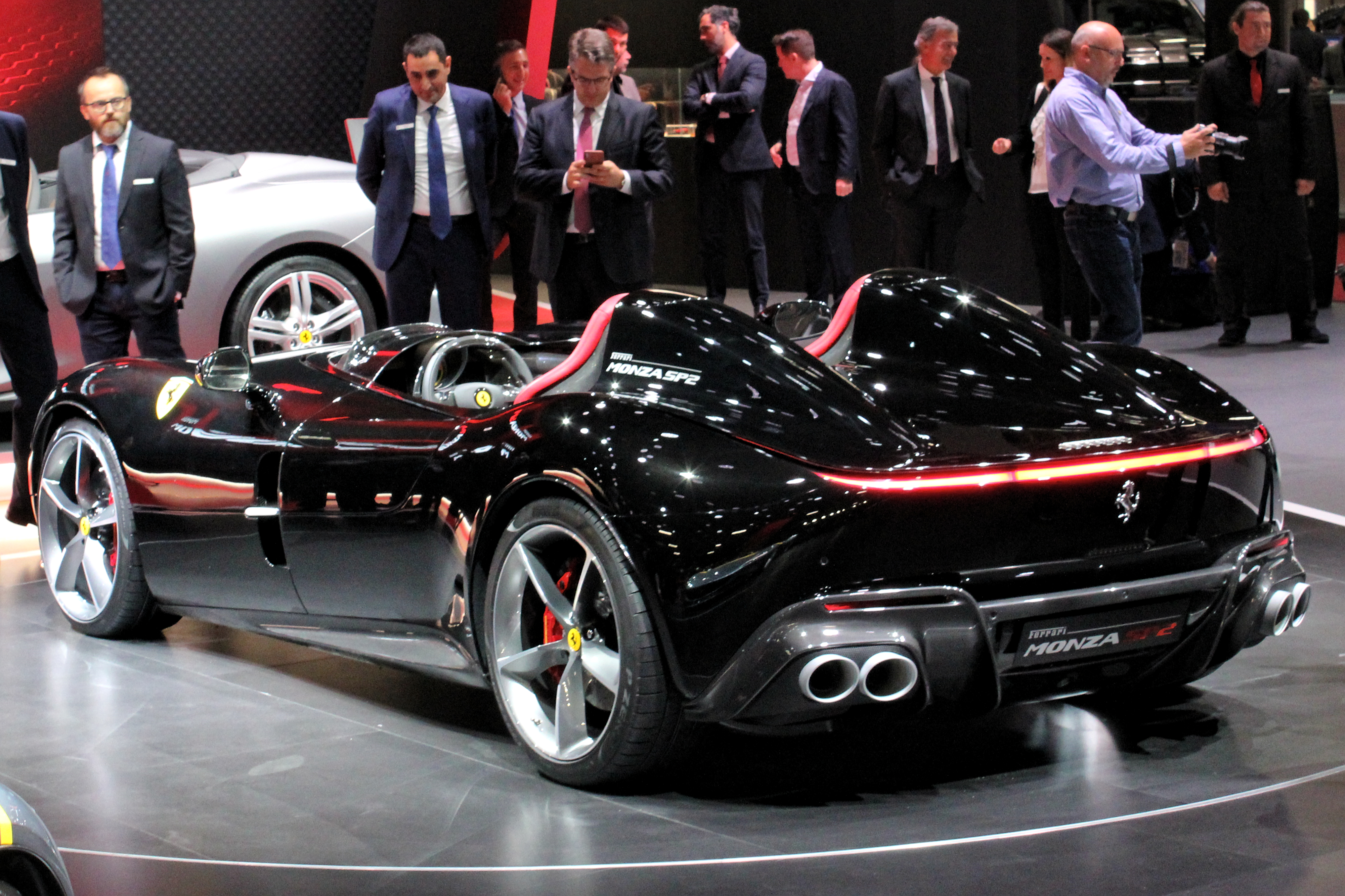 Ferrari Monza SP2 at Paris Motor Show 2018